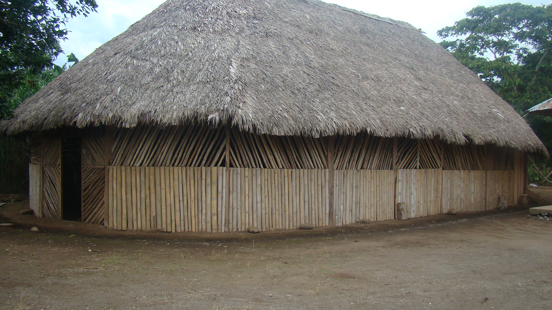 Typical Shuar (indigenous) house in Logroño, Ecuador